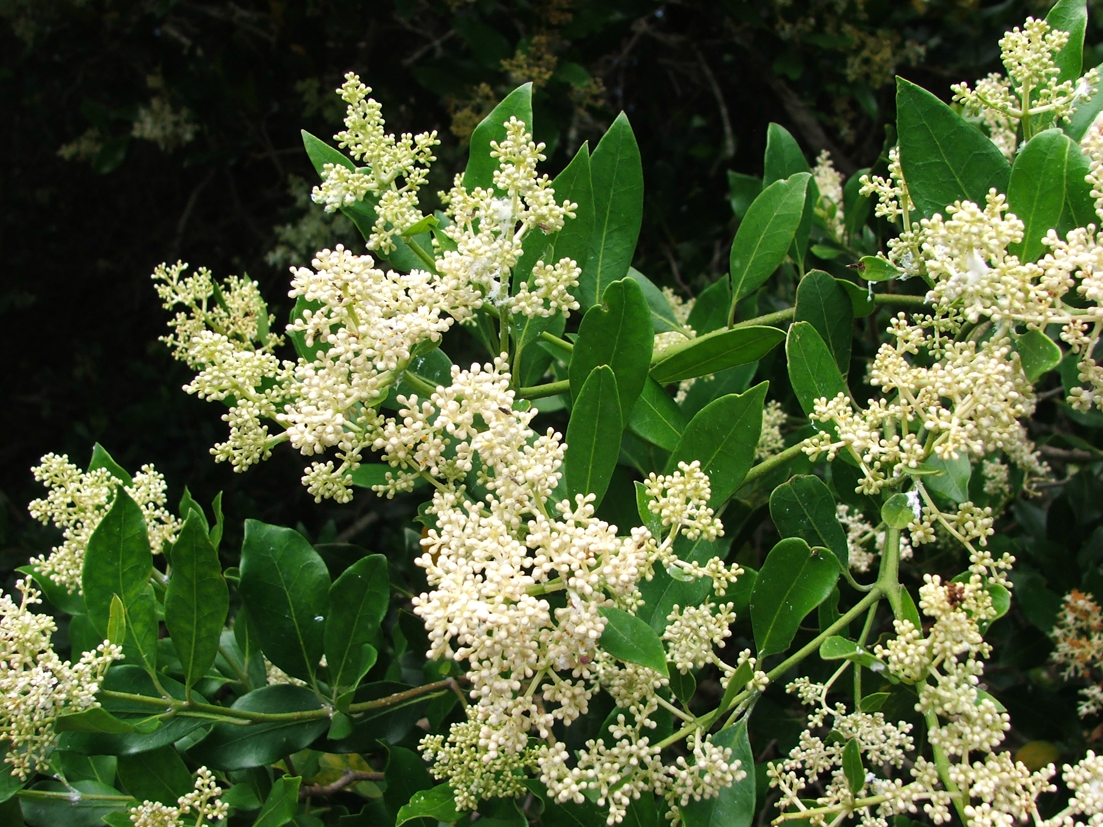 Flowers of Olea capensis. The Ironwood tree. South Africa.